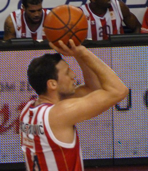 basketball player from BC Red Star